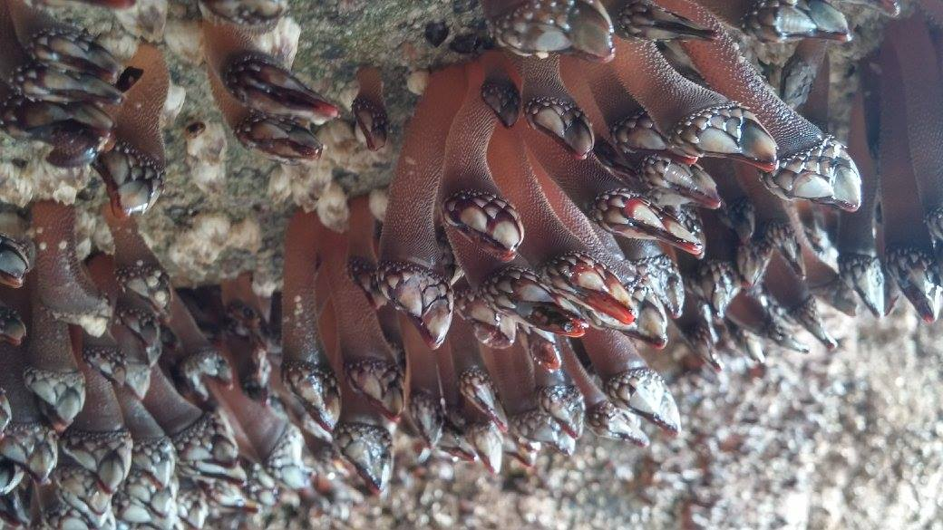 These gooseneck barnacles are reaching down from the top of a tidal cave south of Cannon Beach, Oregon in August 2016, when the tide was out, and the cave was accessible